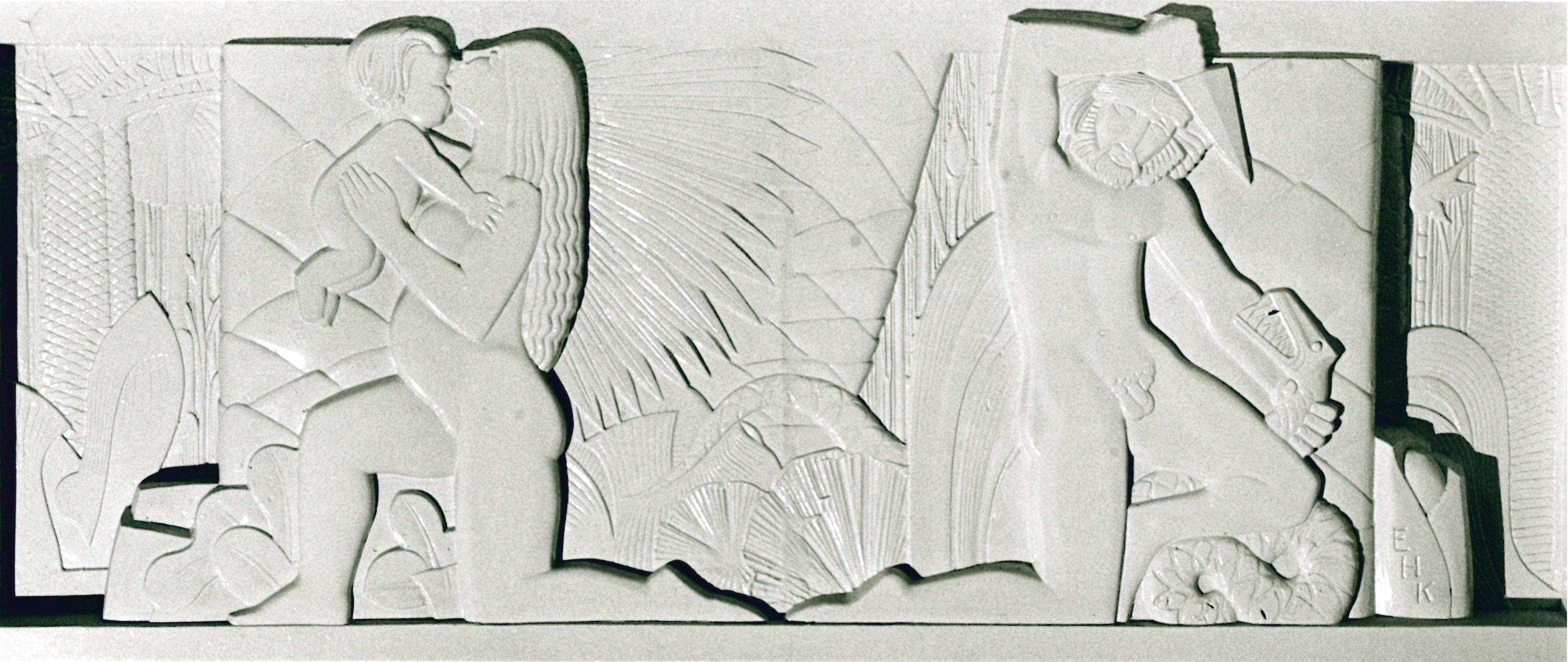 The Kennington Frieze in its original state, which is situated above the Library entrance of the London School of Hygiene & Tropical Medicine. Copyright of London School of Hygiene & Tropical Medicine